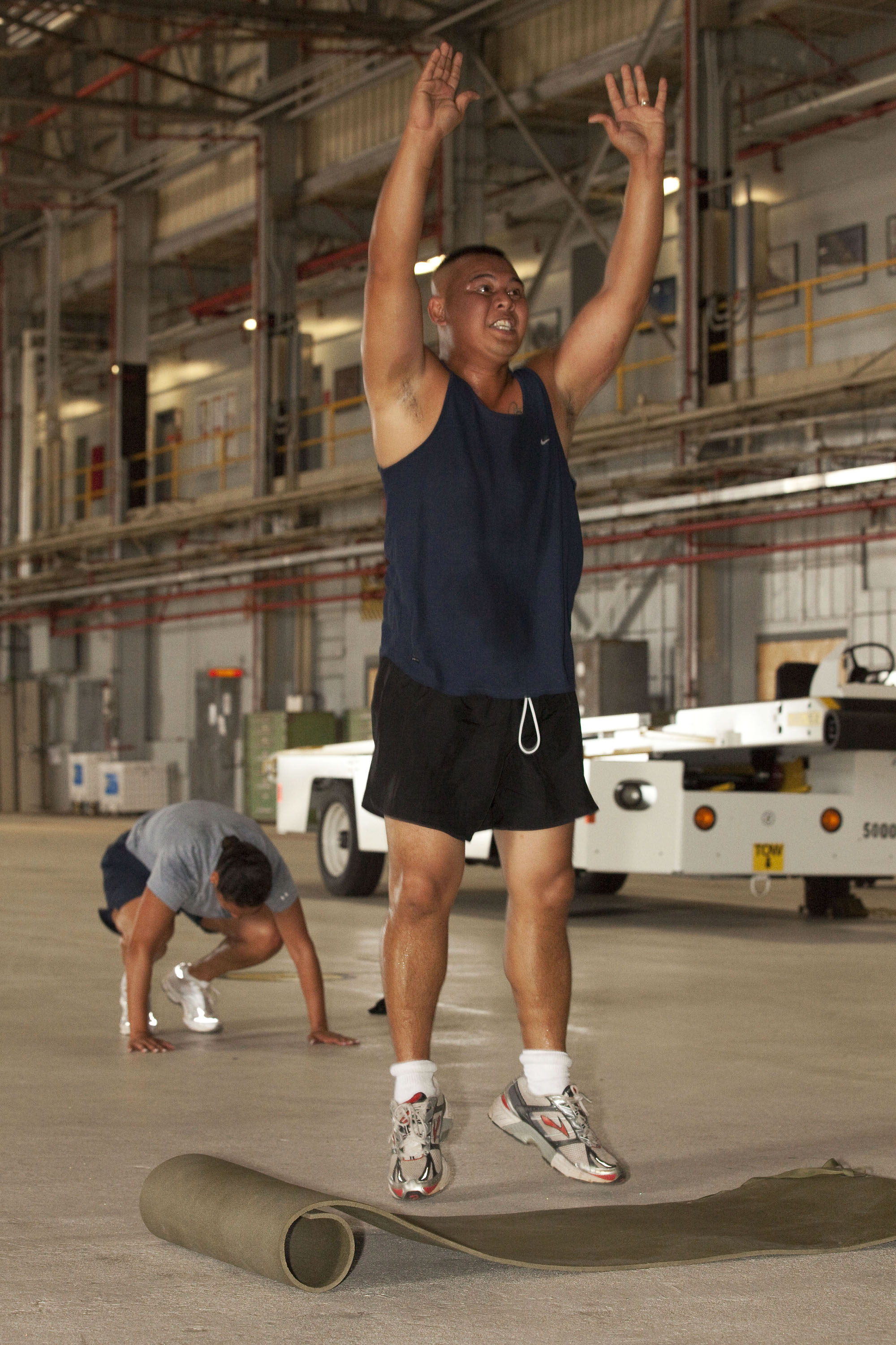 Master Sgt. Richie Quinata, air operations chief, Marine Corps Air Station Kaneohe Bay, Hawaii, completes a burpee exercise during an Insanity Workout at Hangar 105 on MCAS, Oct. 29, 2010. In non-stop, circuit training style, the Insanity Workouts run through a wide range of exercises including plyometrics, cardiovascular conditioning and core strengthening. Weights and workout equipment are not needed.